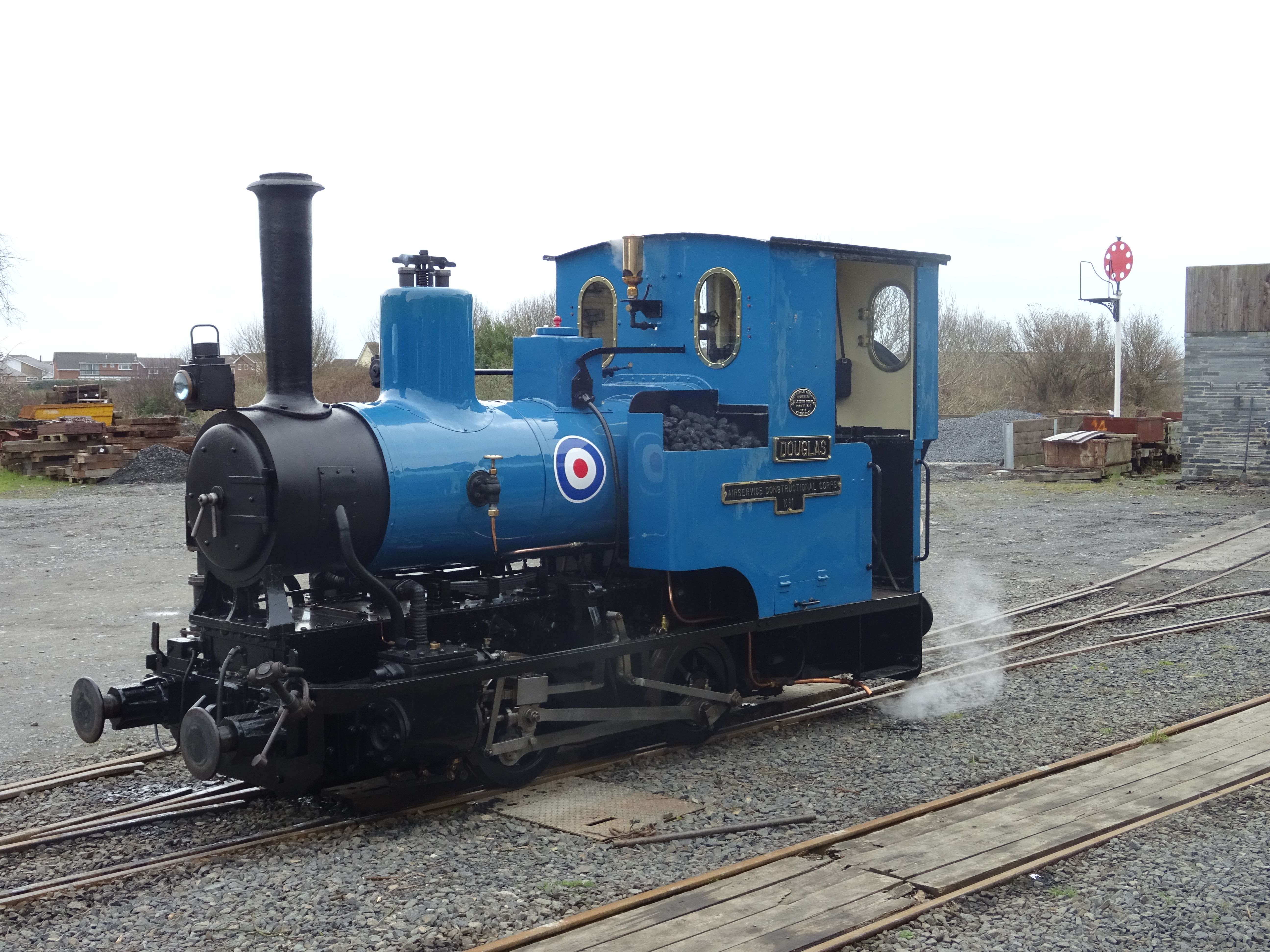 Talyllyn Railway No. 6 Douglas in new RAF blue livery